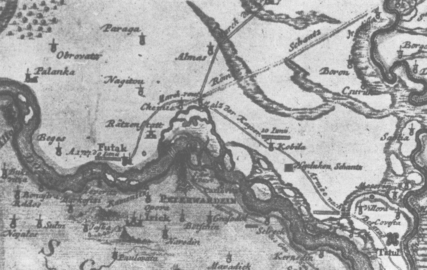 Map of Novi Sad (Ratzenstatt) with surroundings (including Almaš village) in 1716-1717.